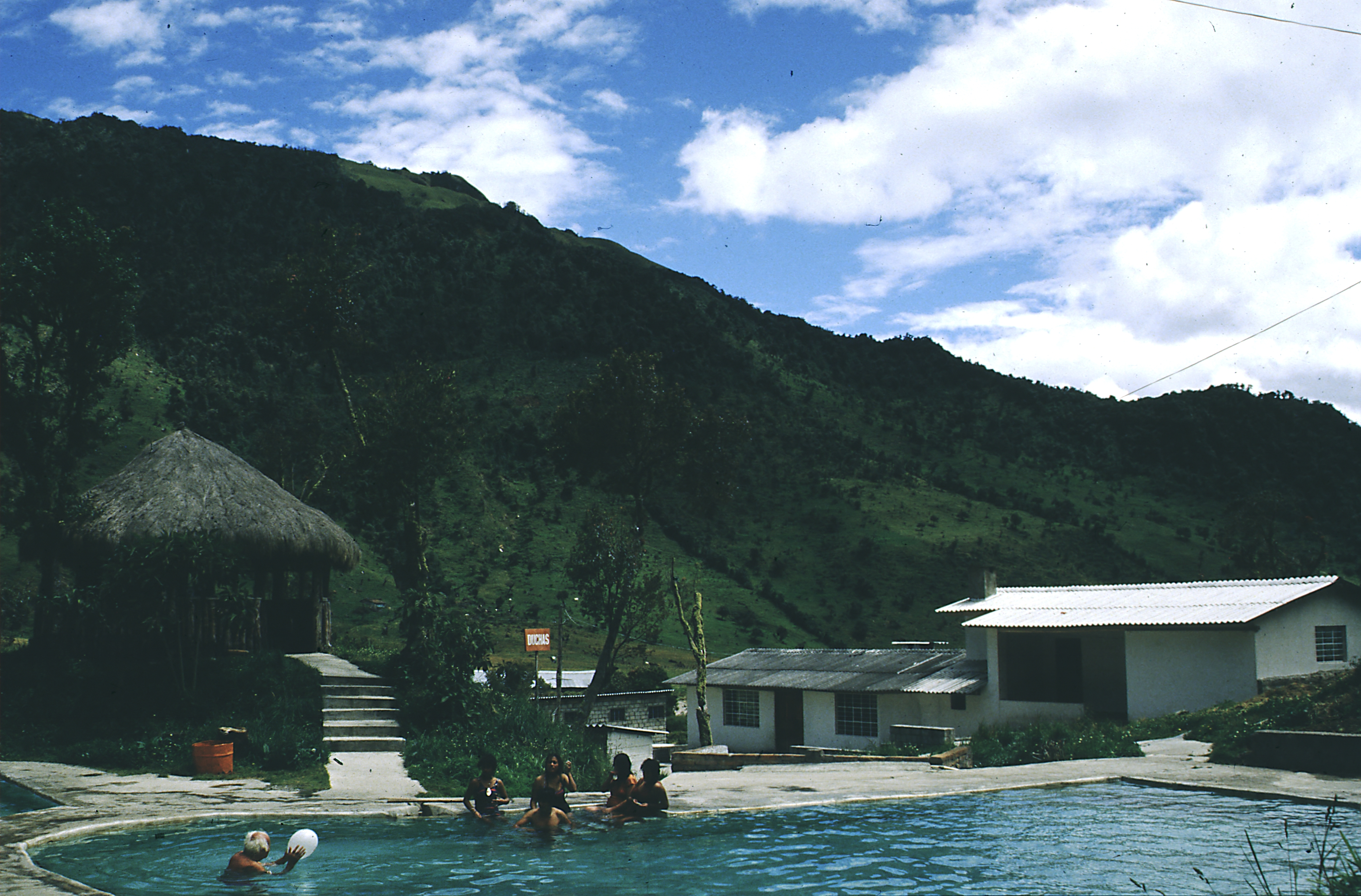 This photo has been scanned with a Reflecta DigitDia 6000 image scanner. Personality rights warningAlthough this work is freely licensed or in the public domain, the person(s) shown may have rights that legally restrict certain re-uses unless those depicted consent to such uses. In these cases, a model release or other evidence of consent could protect you from infringement claims.